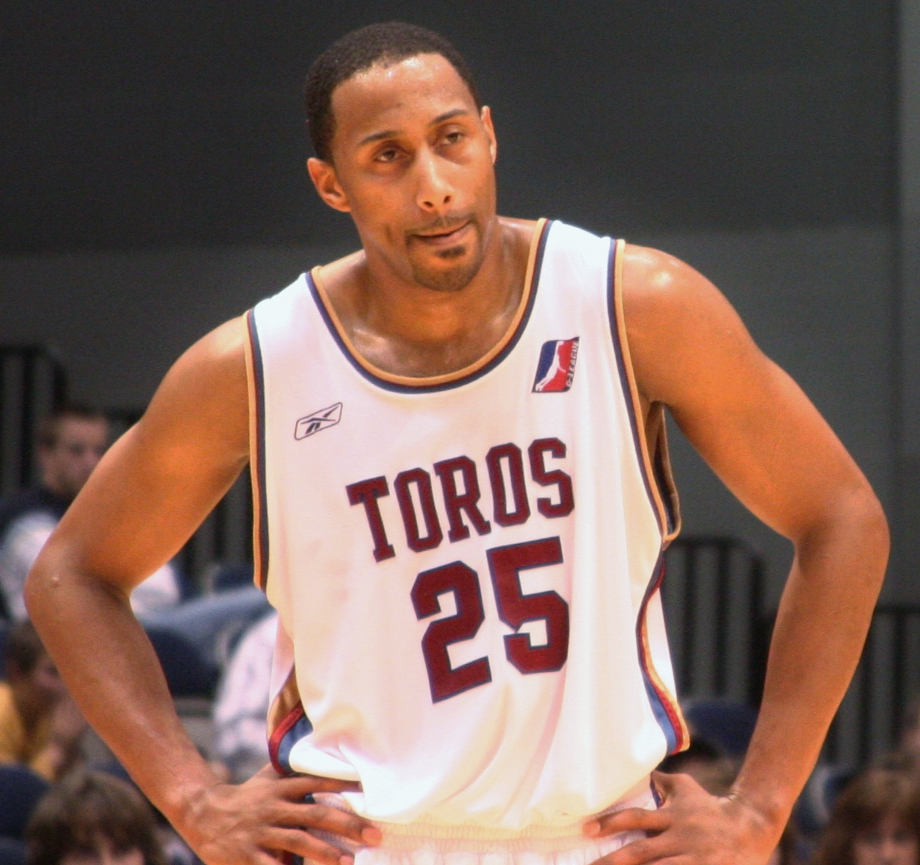 Austin Toros player Alex Scales during the January 27, 2006 game vs. the Arkansas RimRockers in the Austin Convention Center.